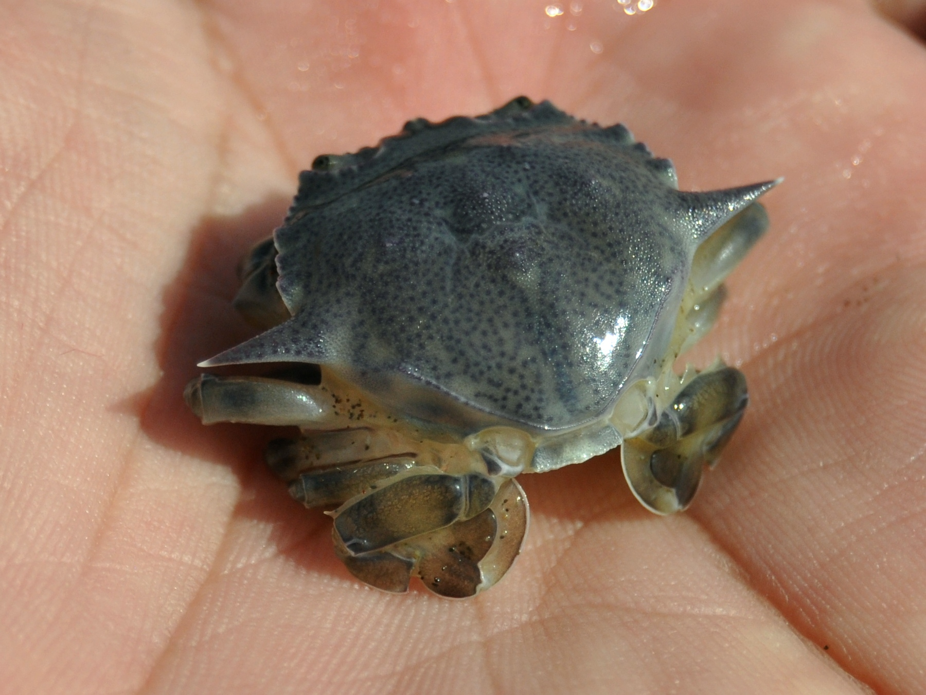 Moon crabs, Matuta victor, young male 24mm CW (carapace width, without lateral spines); from Cilacap southern coast of Central Java, Indonesia. With bluish carapace color.